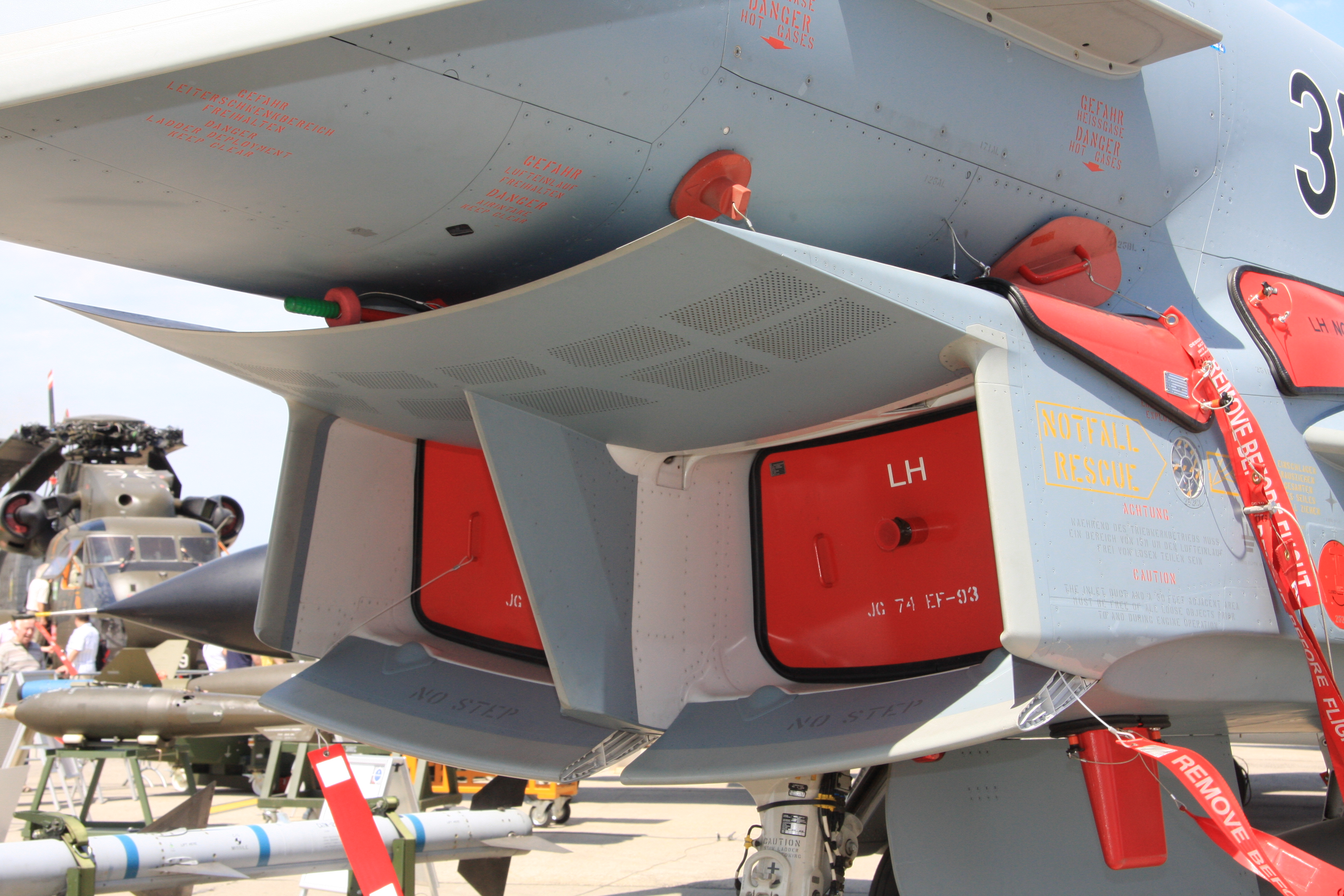 The air intake of an Eurofighter of the German Luftwaffe at Berlin Schönefeld Airport (picture taken during the International Air and Space Exhbition).